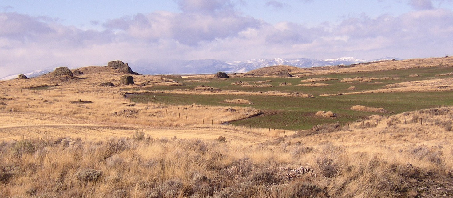 Large glacial erratics on the terminal moraine with multiple kames at the terminus of the Okanagon Lobe on the Waterville Plateau. A glacial erratic is a piece of rock that differs from the size and type of rock native to the area in which it rests. Photos taken by uploader. All rights released Williamborg 20:02, 12 November 2006 (UTC) See Sims Corner Eskers and Kames National Natural Landmark and kames articles for usage. 64.146.238.161 20:22, 12 November 2006 (UTC)